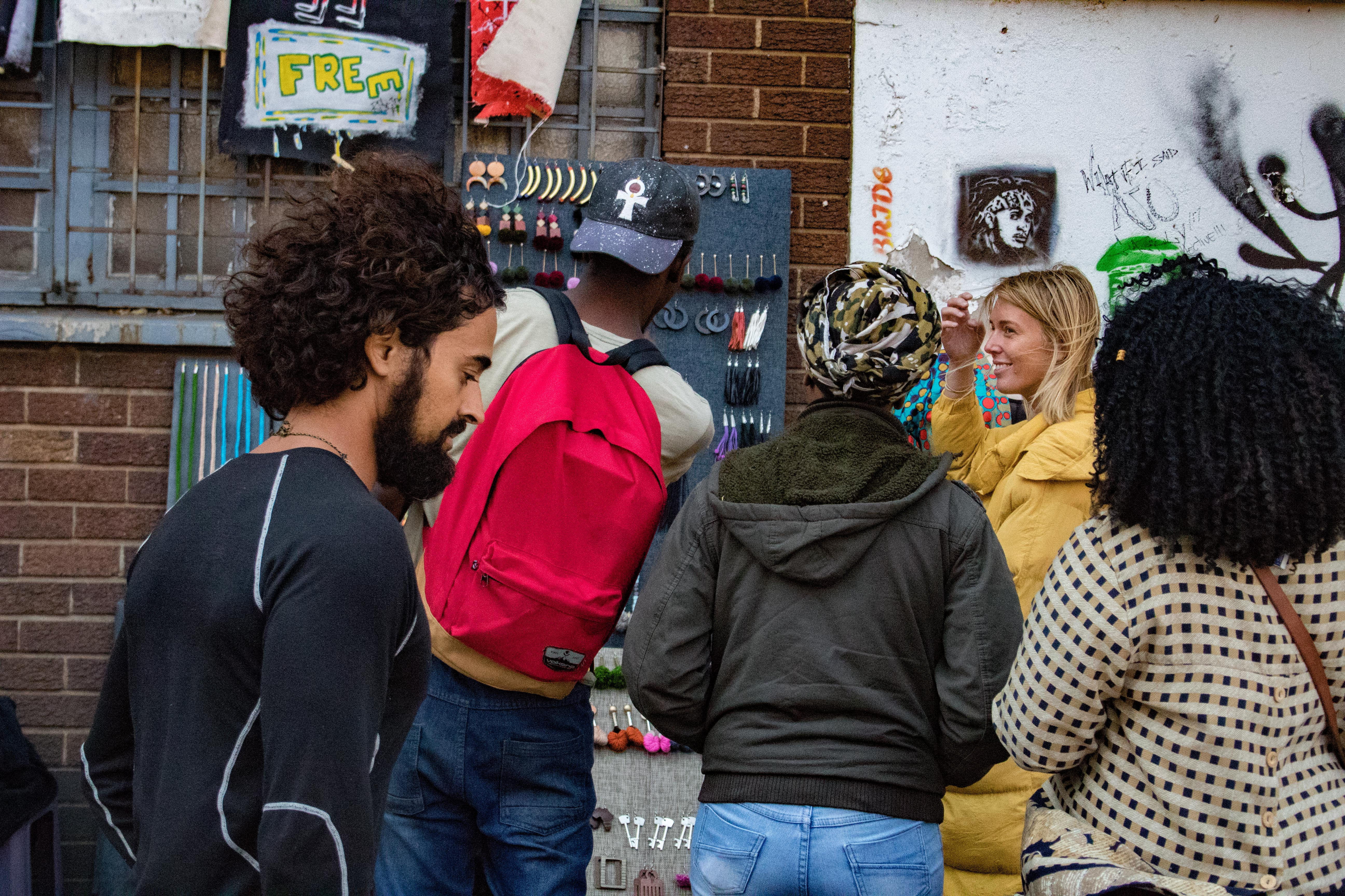 Street photography This is an image with the theme "Africa on the Move or Transport" from: South Africa